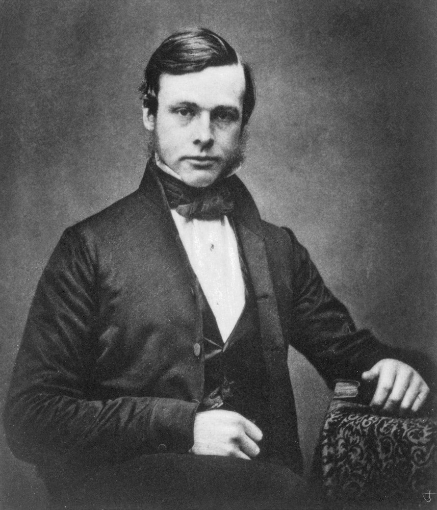 Joseph Lister, 1st Baron Lister